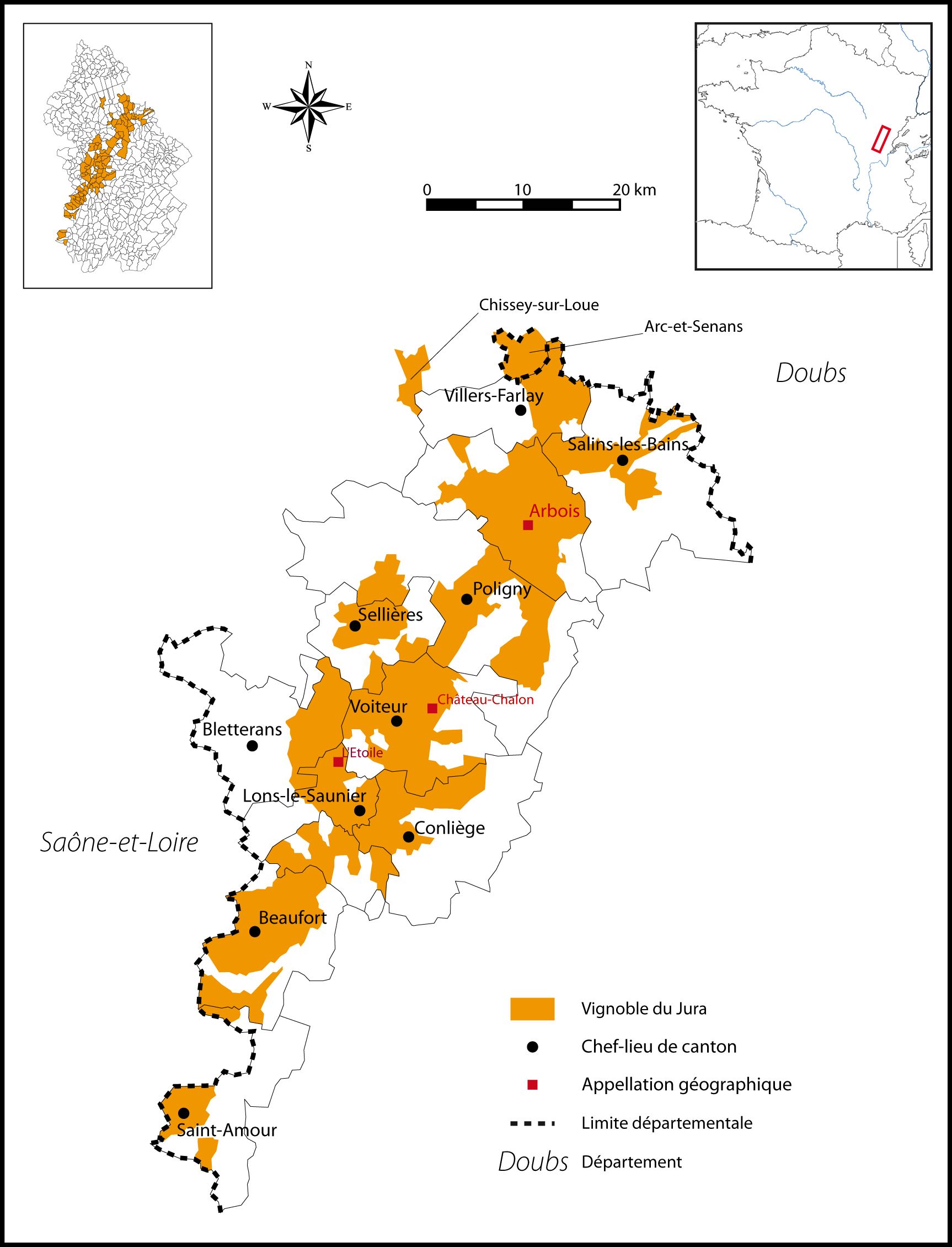 Wine-growing areas of Jura